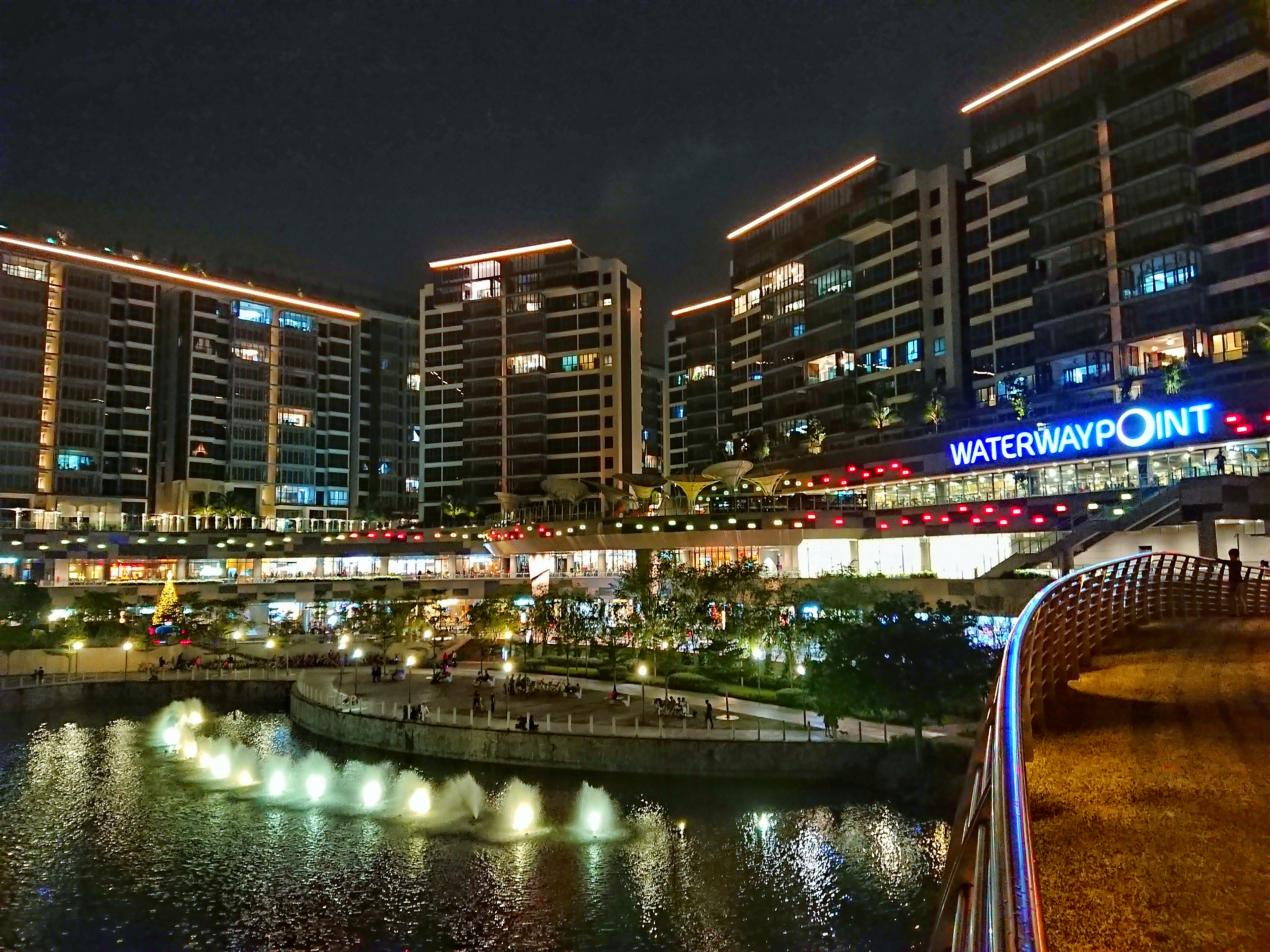 Taken with Xperia XZ Premium, Watertown night view with Waterway Point. 中文（新加坡）: 使用Xperia XZ Premium拍攝水滨坊的夜景。